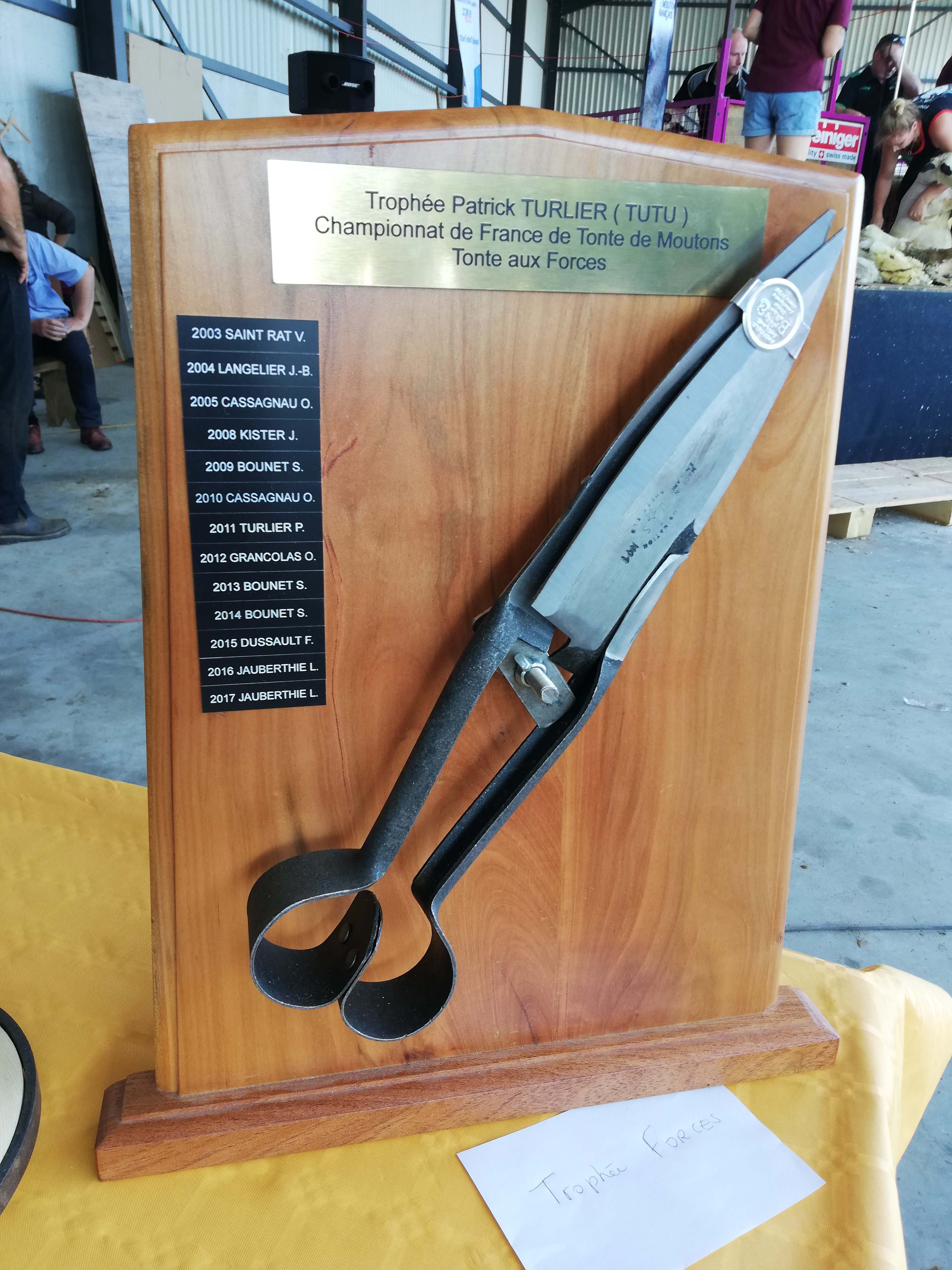 The trophy consists of a pair of forces fixed on a wooden panel, and includes a legendary plaque, and a series of pads bearing the name of the champion by year